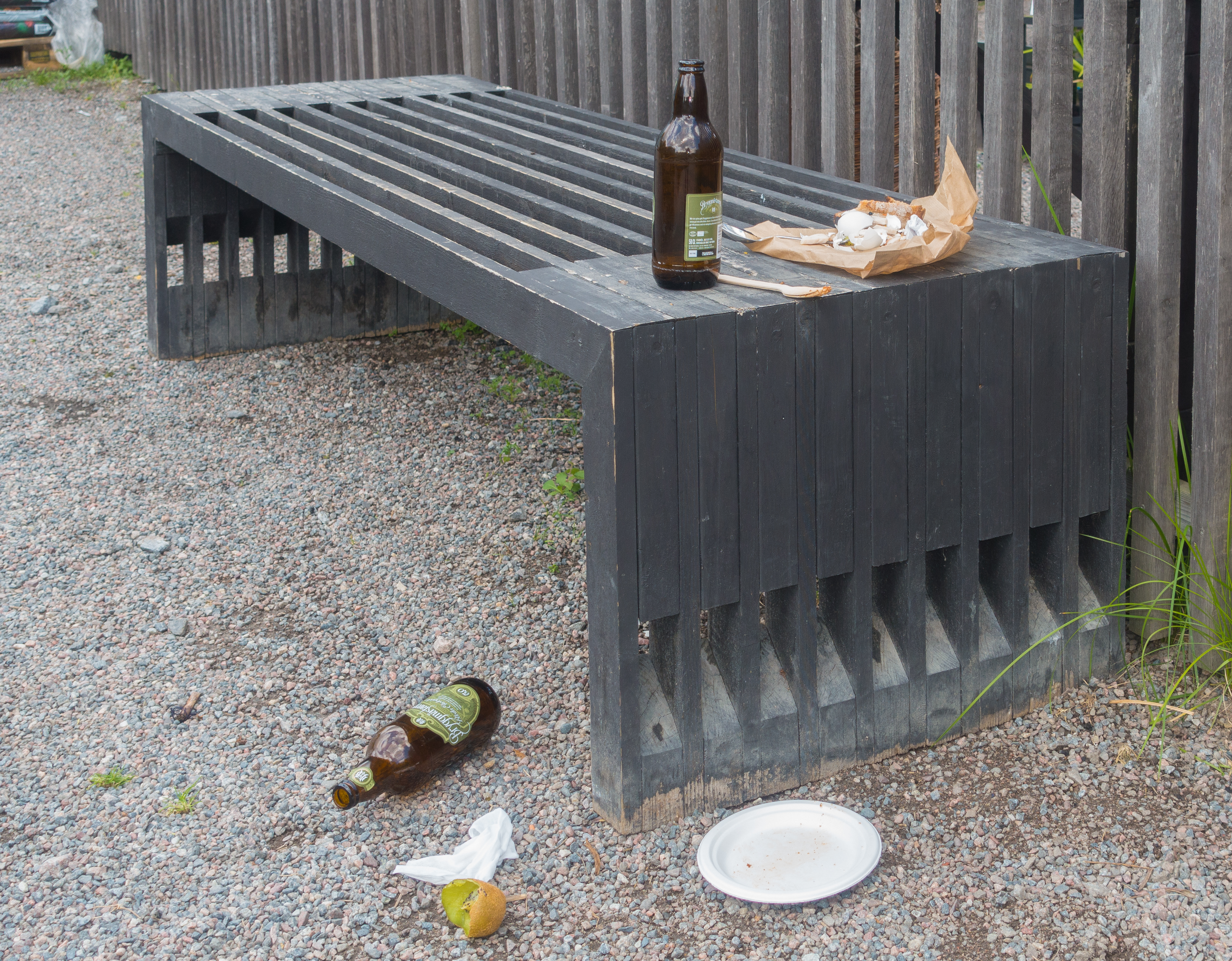 Littering in Rosendal's garden in Stockholm in summer 2020.